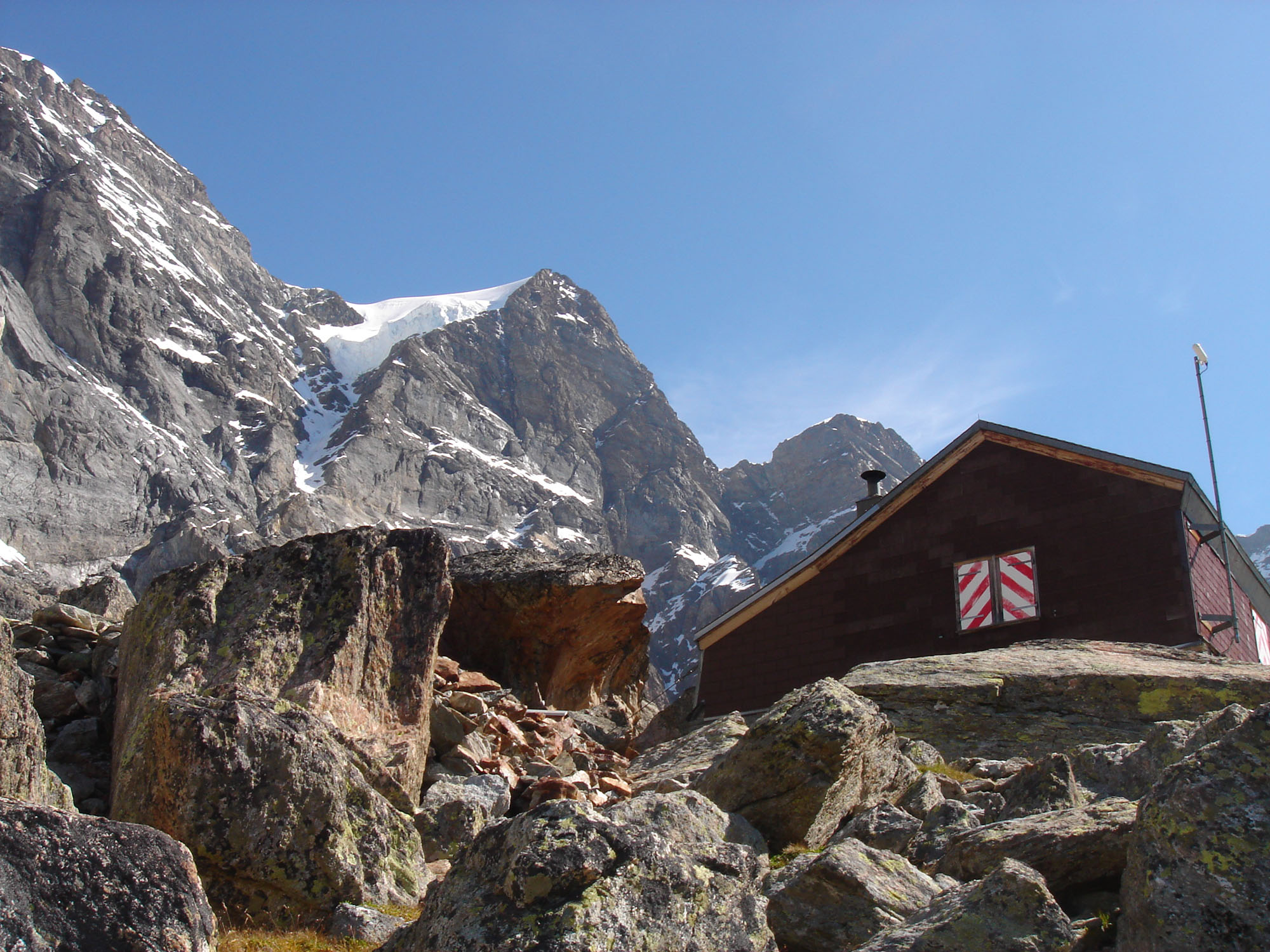 Rottal Hut